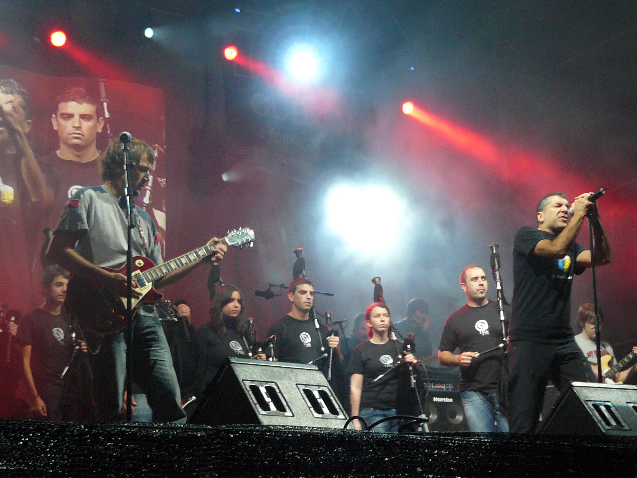 The band Dixebra (Asturies).